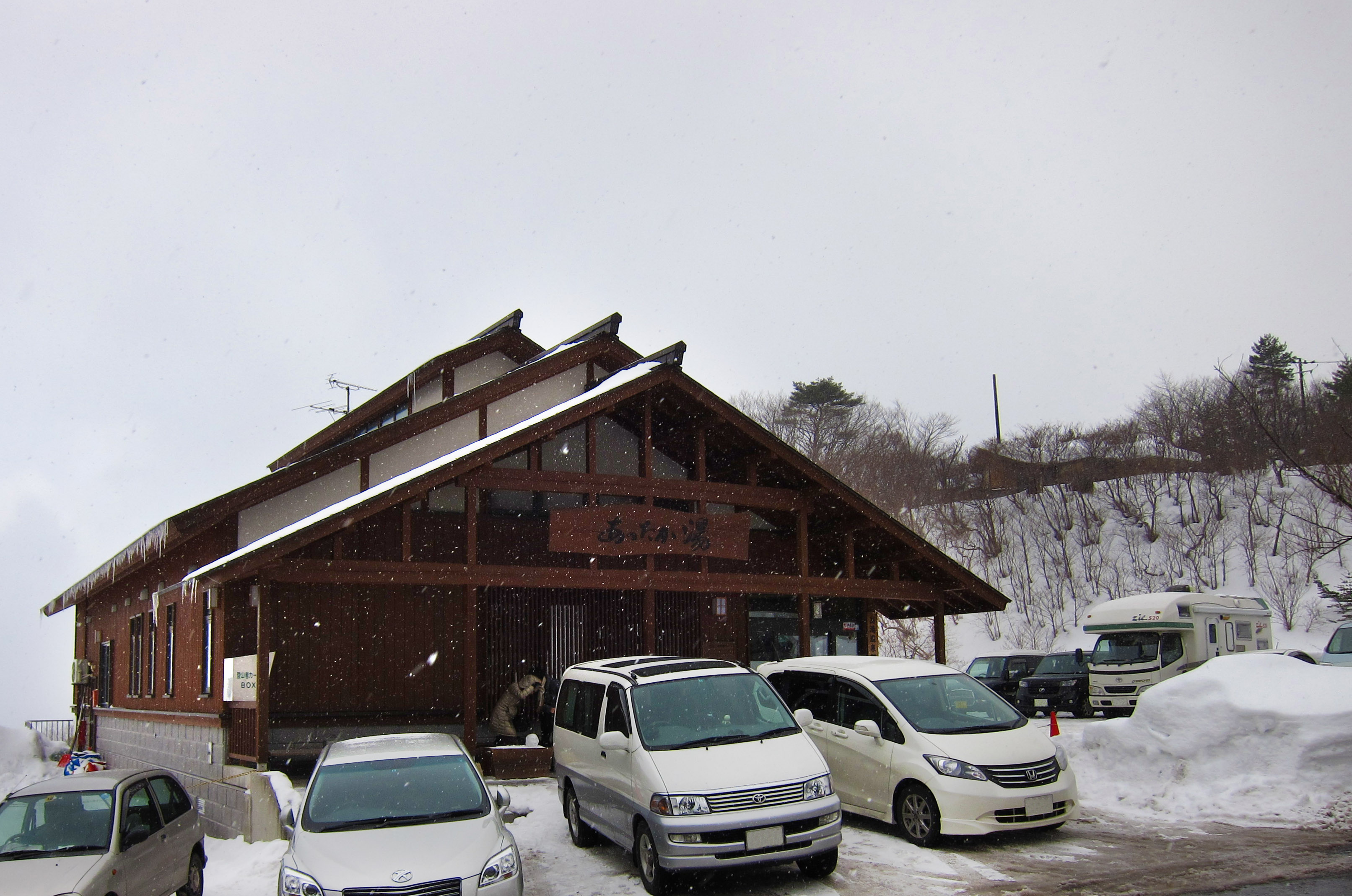 Attaka-yu, at Takayu Onsen